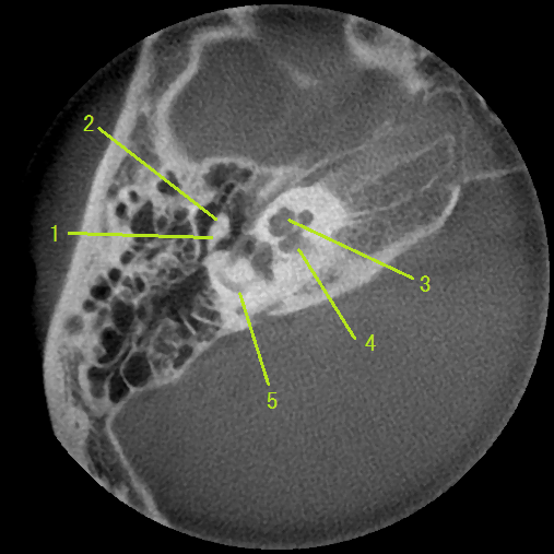 CT image of normal inner ear and ossicles. 1: body of incus 2: head of malleus 3: cochlea 4: internal auditory canal (Internal auditory meatus) 5: lateral semicircular duct